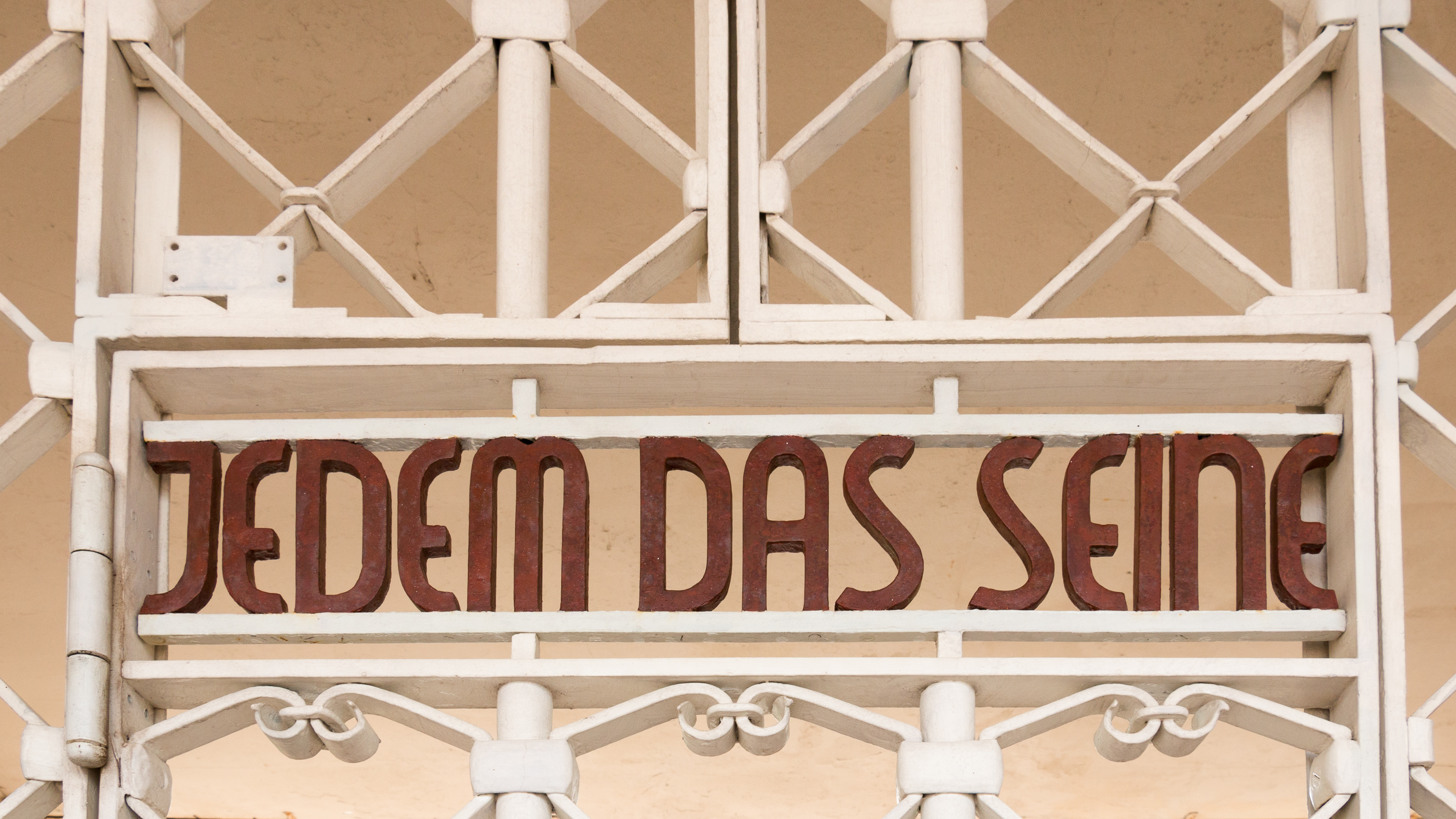 Entrance gate of the Buchenwald concentration camp